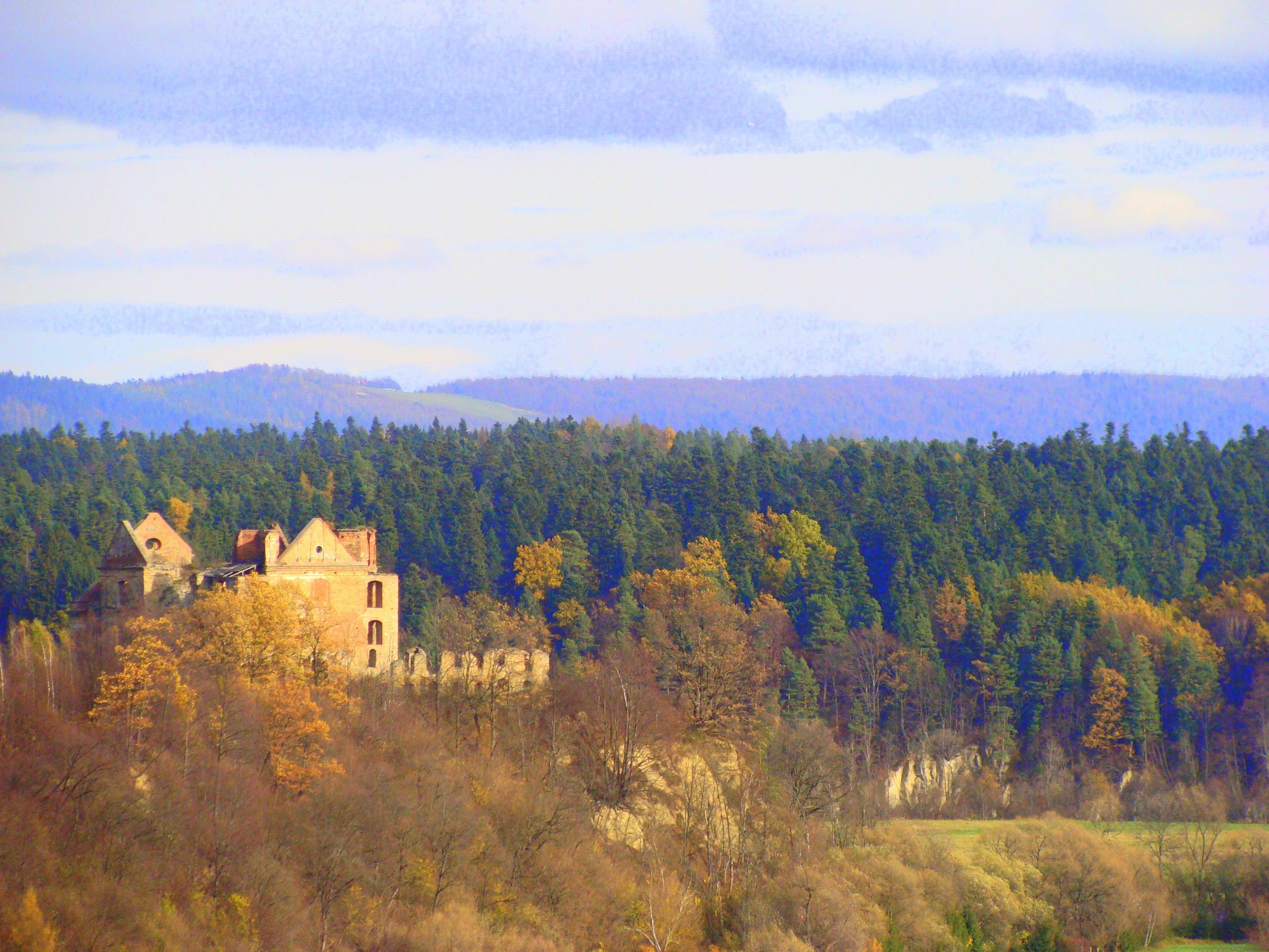 Mariemont, Zagórz